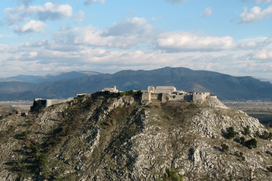 The Rozafa Castle, view from Tarabosh Mountain